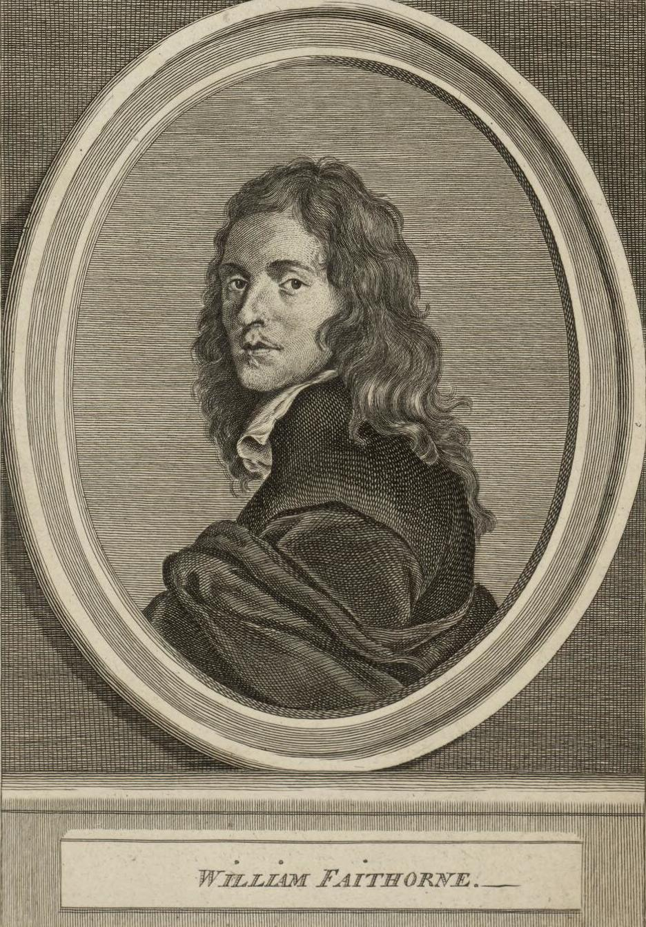 A portrait from the Welsh Portrait Collection at the National Library of Wales. Depicted person: William Faithorne – British artist